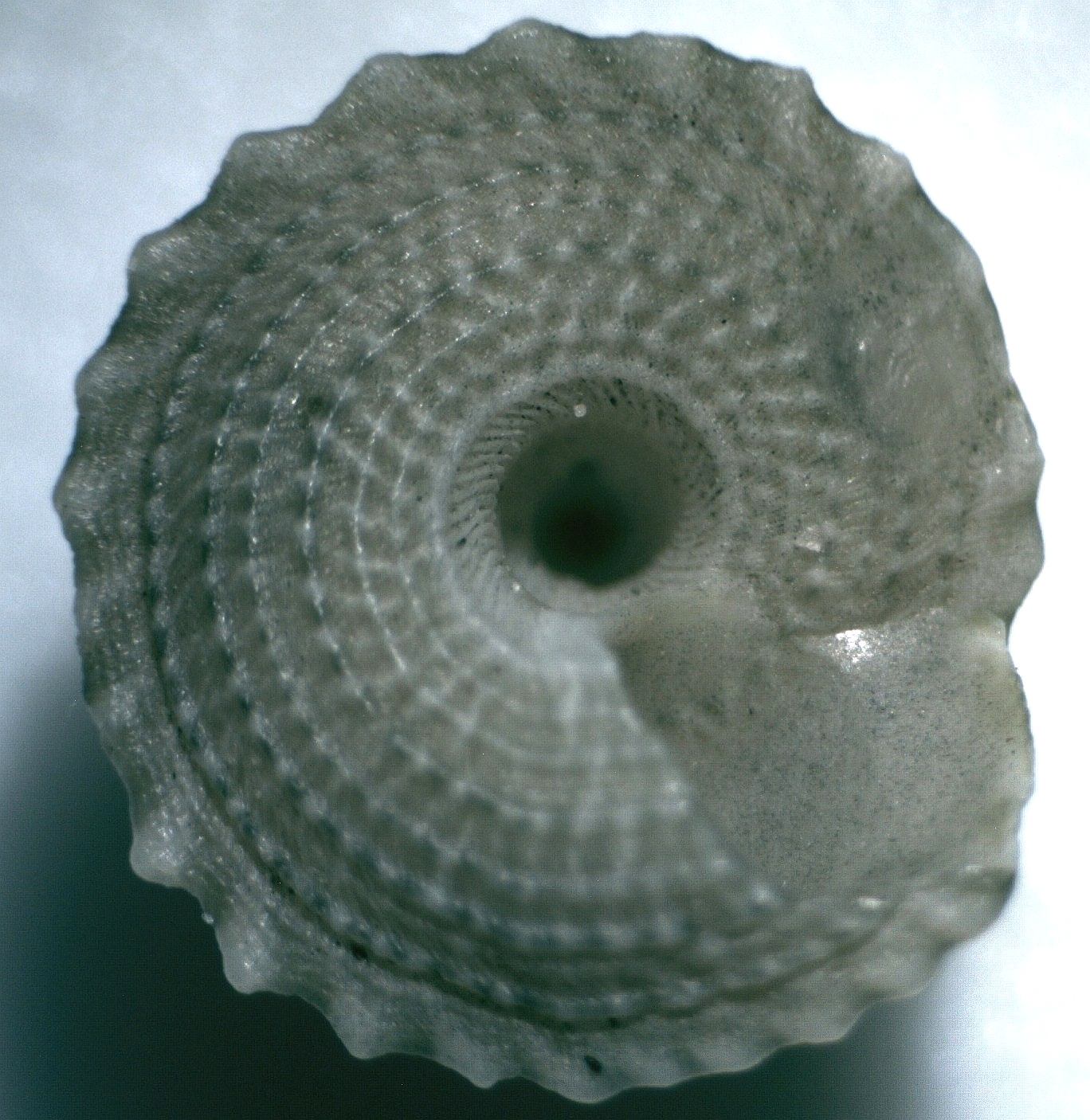 Agagus agagus, a top snail in the family Trochidae; Red Sea